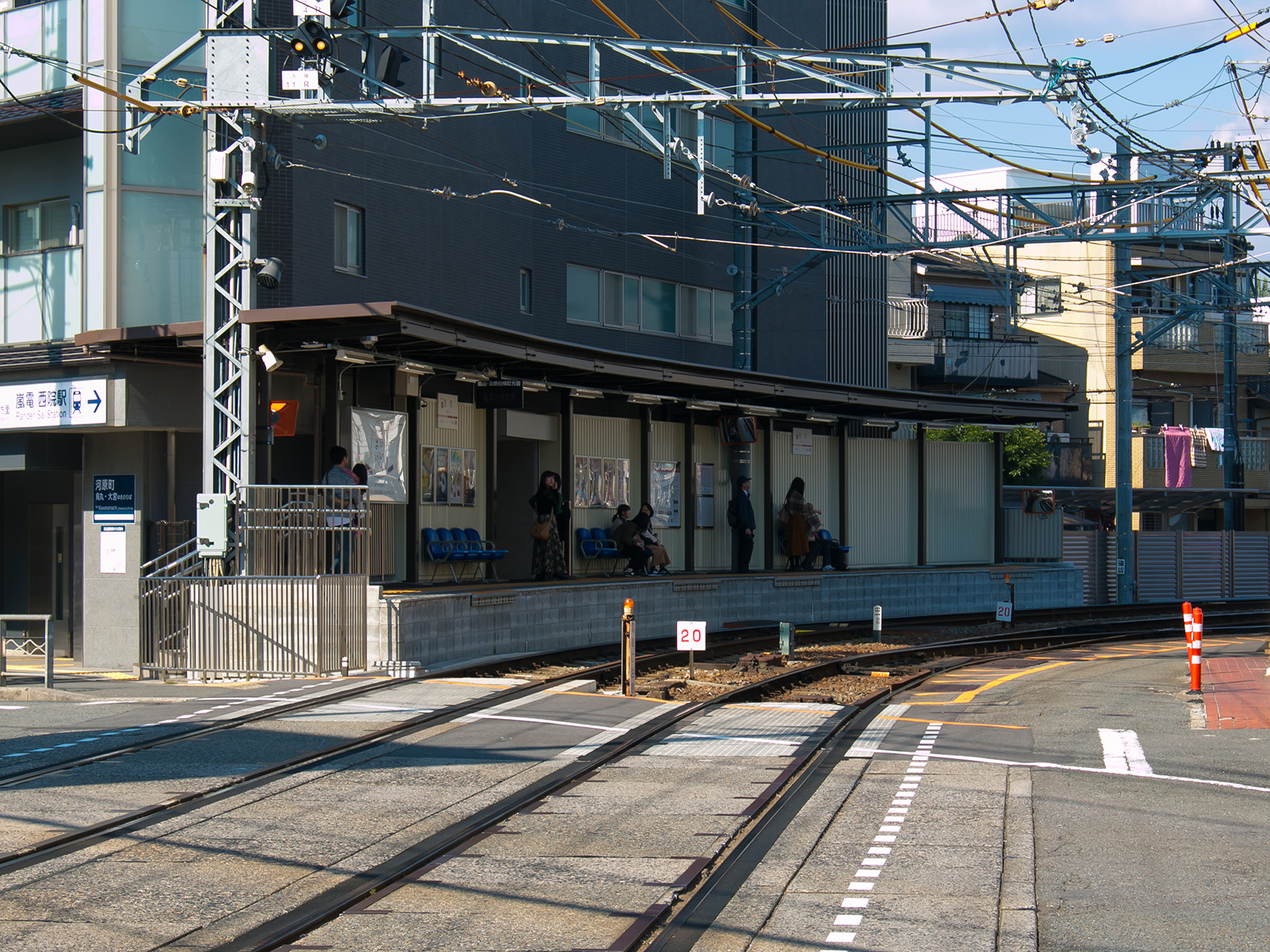 New Platform from Sai Station, Keifuku Electric Railroad Arashiyama Main Line.